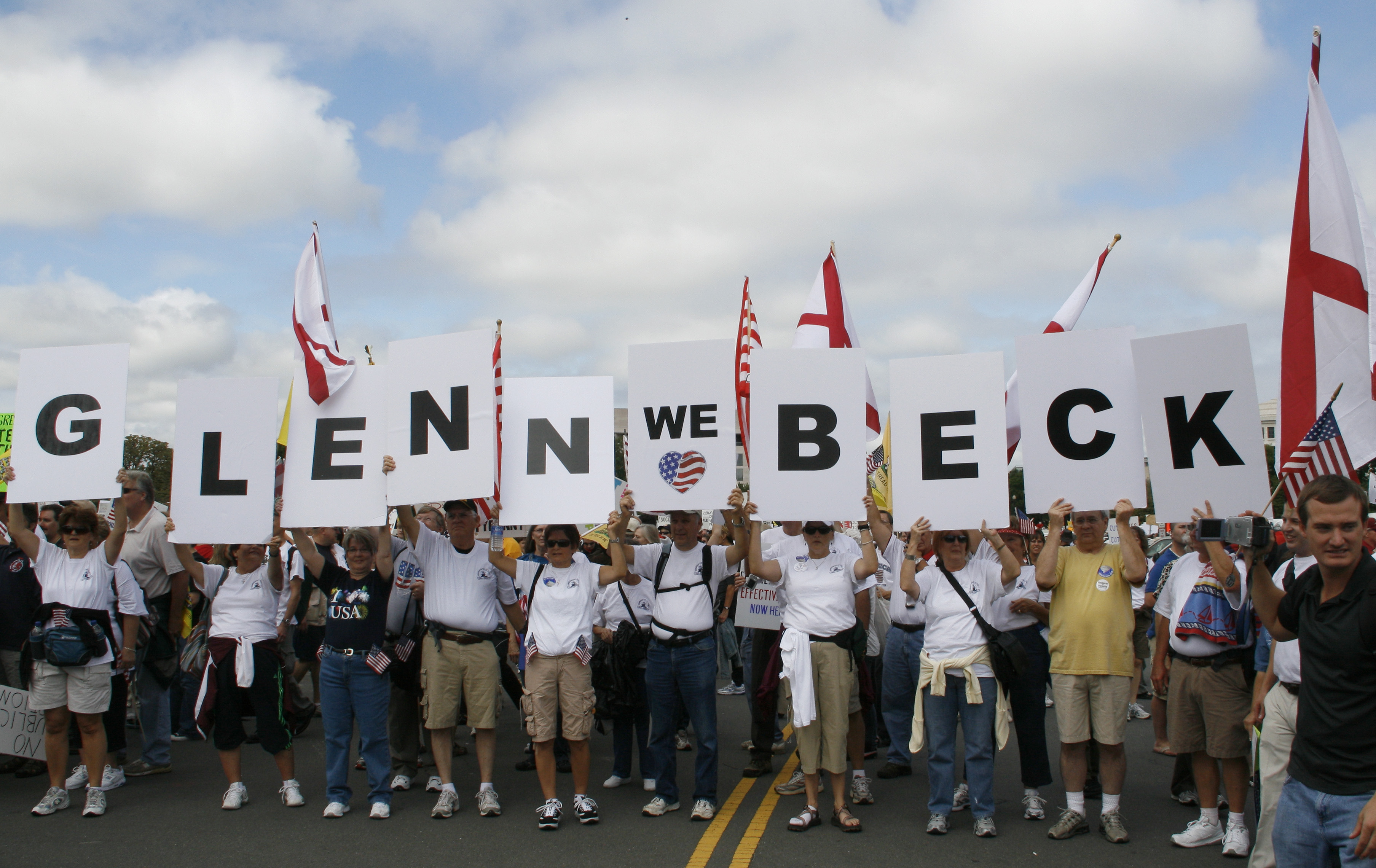 Fans of Glenn Beck at the Taxpayer March on Washington.